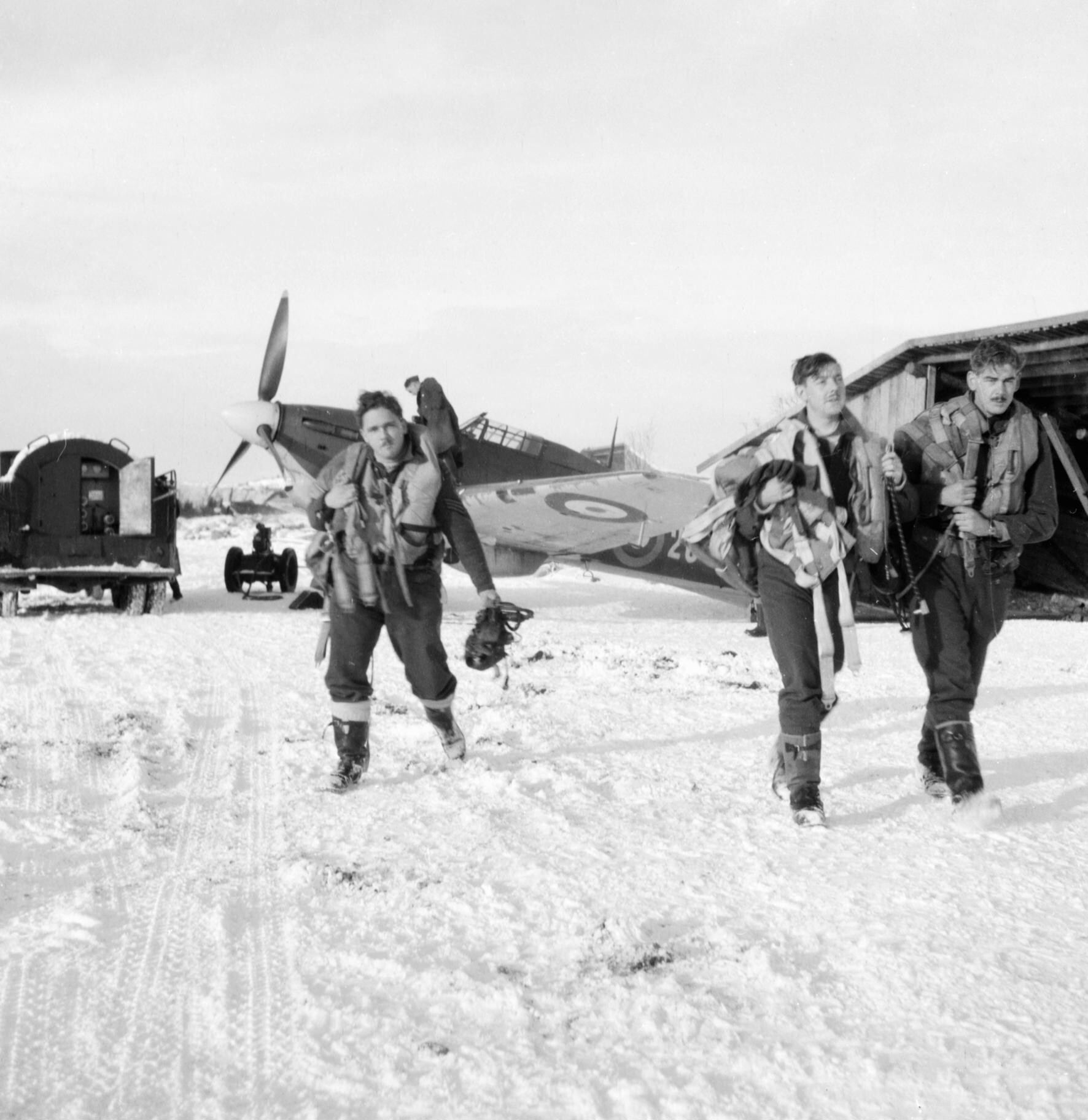 No. 151 Wing Royal Air Force Operations in Russia, September-november 1941. Pilots walk through the snow to Wing Headquarters to report to the intelligence officer, after undertaking a mission escorting Soviet bombers to their target. In the background, a Hawker Hurricane of No. 134 Squadron RAF is refuelled outside its wooden hangar.